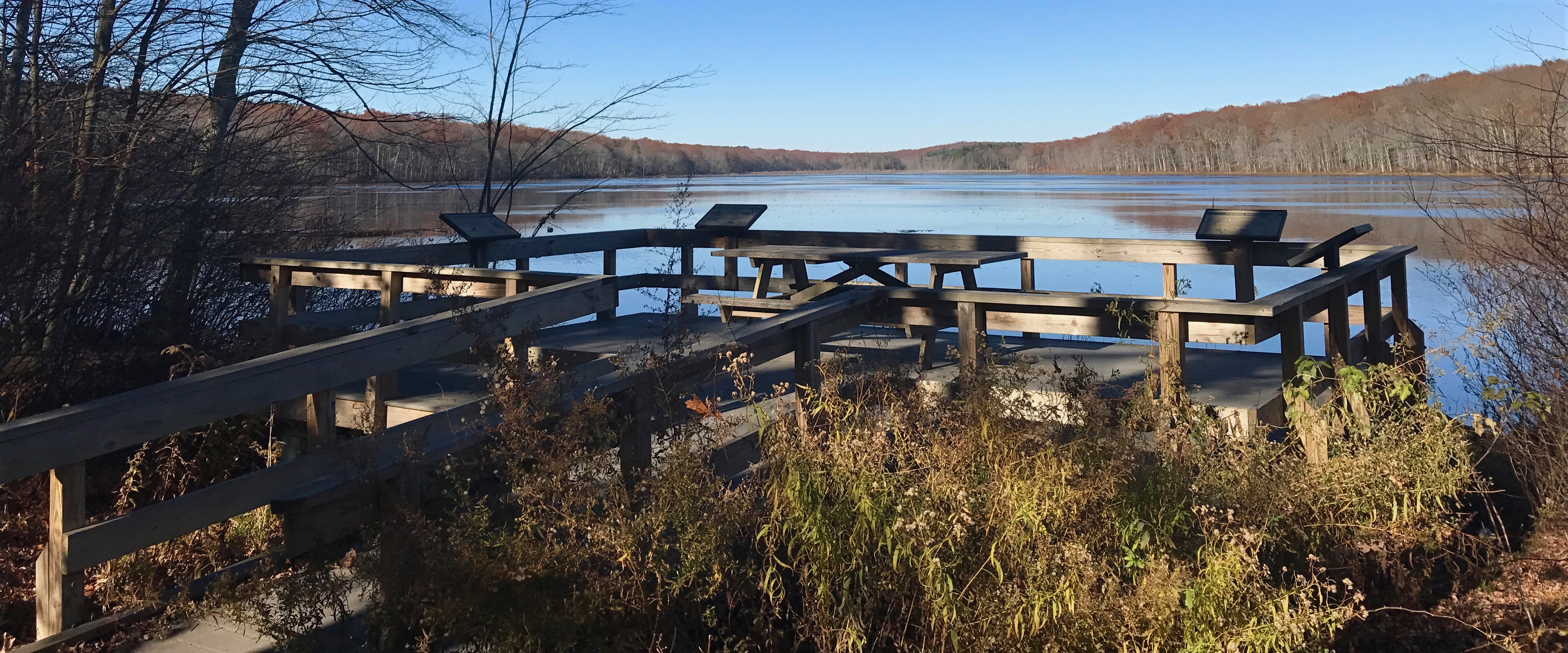 James Goodwin State Forest: Pine Acres Lake Observation Deck at Boat Launch.